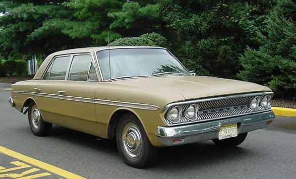 1963 Rambler Classic 770 by American Motors Corporation (AMC) four door sedan finished in "Corsican Gold" (paint code - P41)